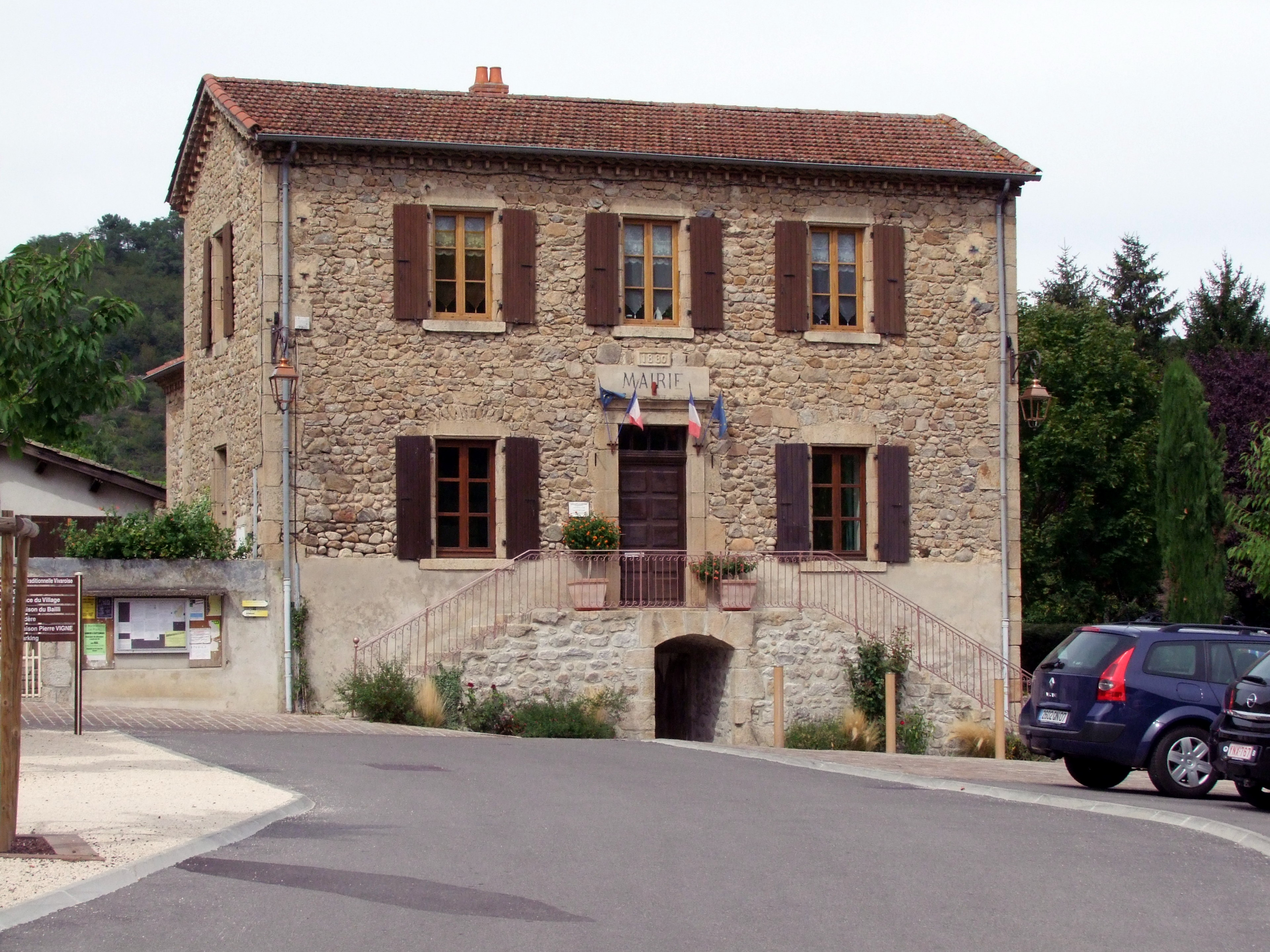 Town hall of Boucieu-le-Roi, Ardèche, France